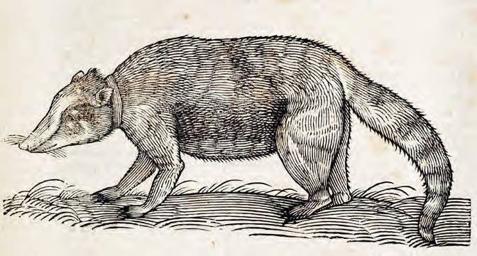 Raccoon - engraving from History of Four-Footed Beastes (1658)